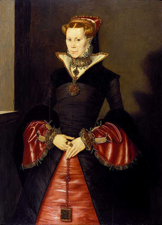 Unknown Lady 1550s(thought to the be Lady Jane Dormer)